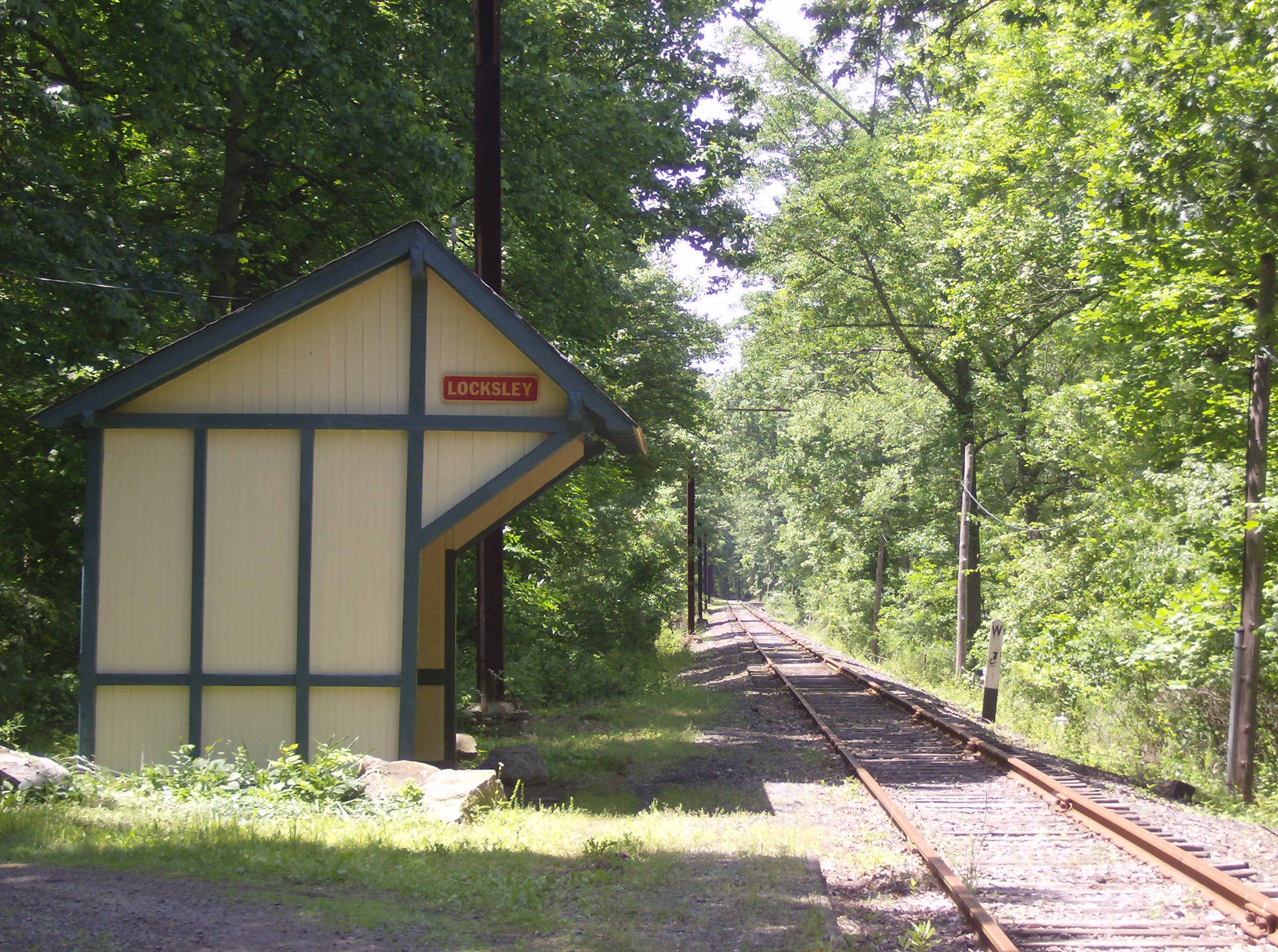 Locksley train station